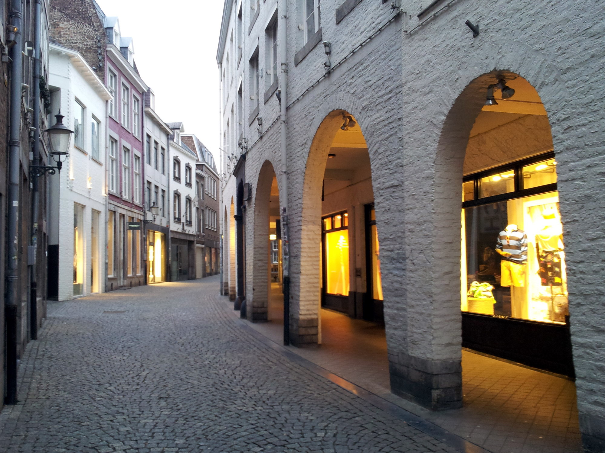 Maastricht, the Netherlands. View of shopping arcade in Maastrichter Smedenstraat, built in the 1960s during the renovations of Stokstraatkwartier.